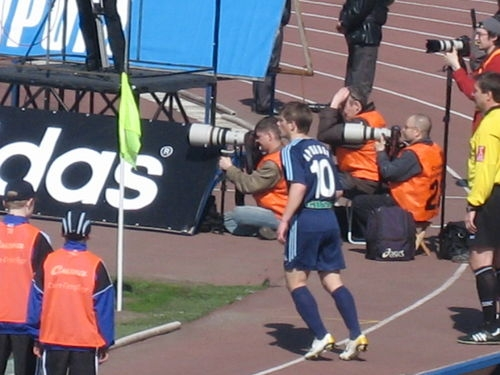 Andrei Arshavin. 2006 Russian Premier League (FC Zenit St.Petersburg v.s. FC Spartak Moscow)